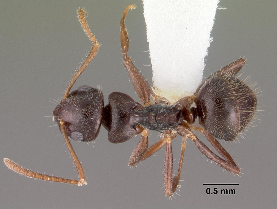 Dorsal view of ant Teratomyrmex greavesi specimen casent0102382.